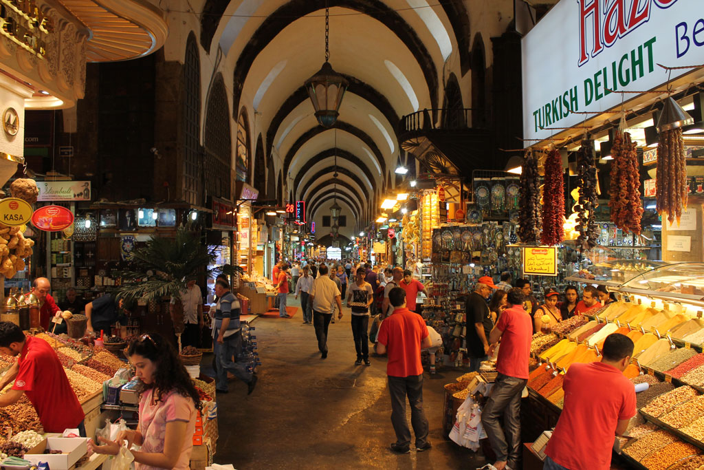 The image shows the interior of a corridor within the Grand Bazaar.